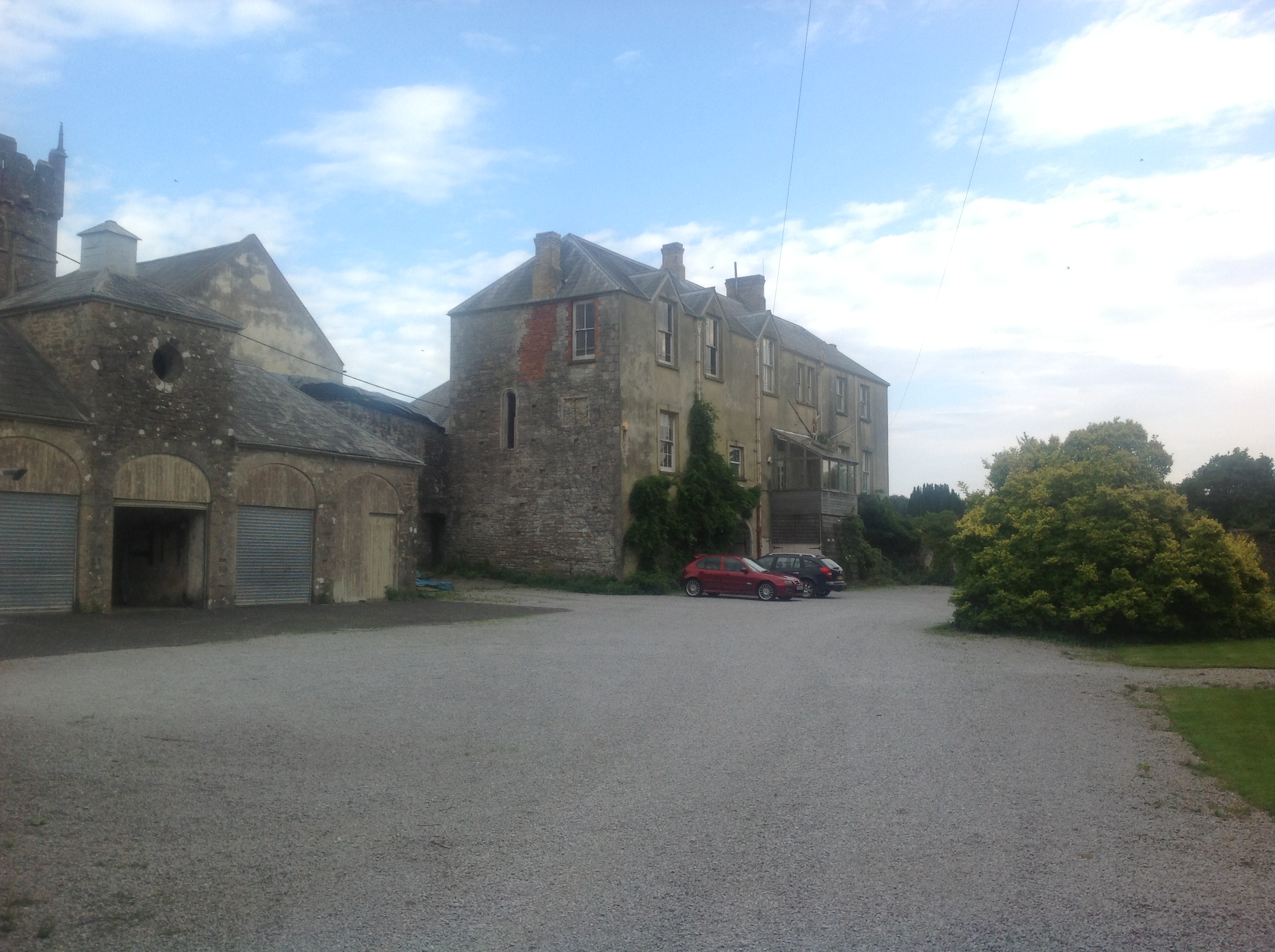 Ewenny Priory house, Ewenny Priory, Vale of Glamorgan, Wales